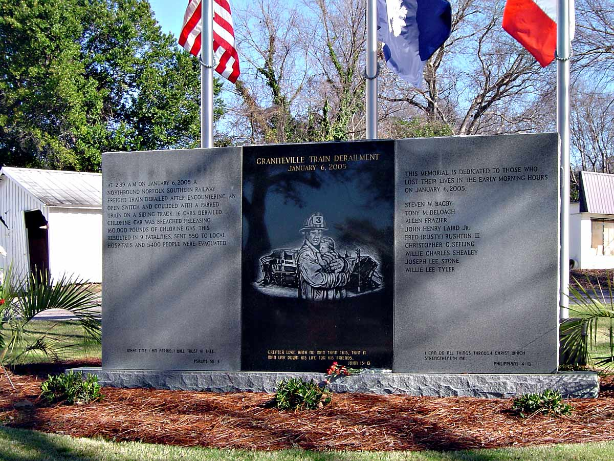 Monument to Loss of Life in Graniteville Train Derailment of 6 January 2005. Graniteville South Carolina. Photograph 2007 by P J Hughes